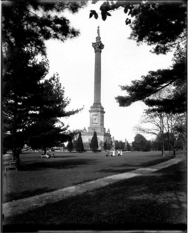 Brock's Monument, Queenston Heights, Ontario, Canada.